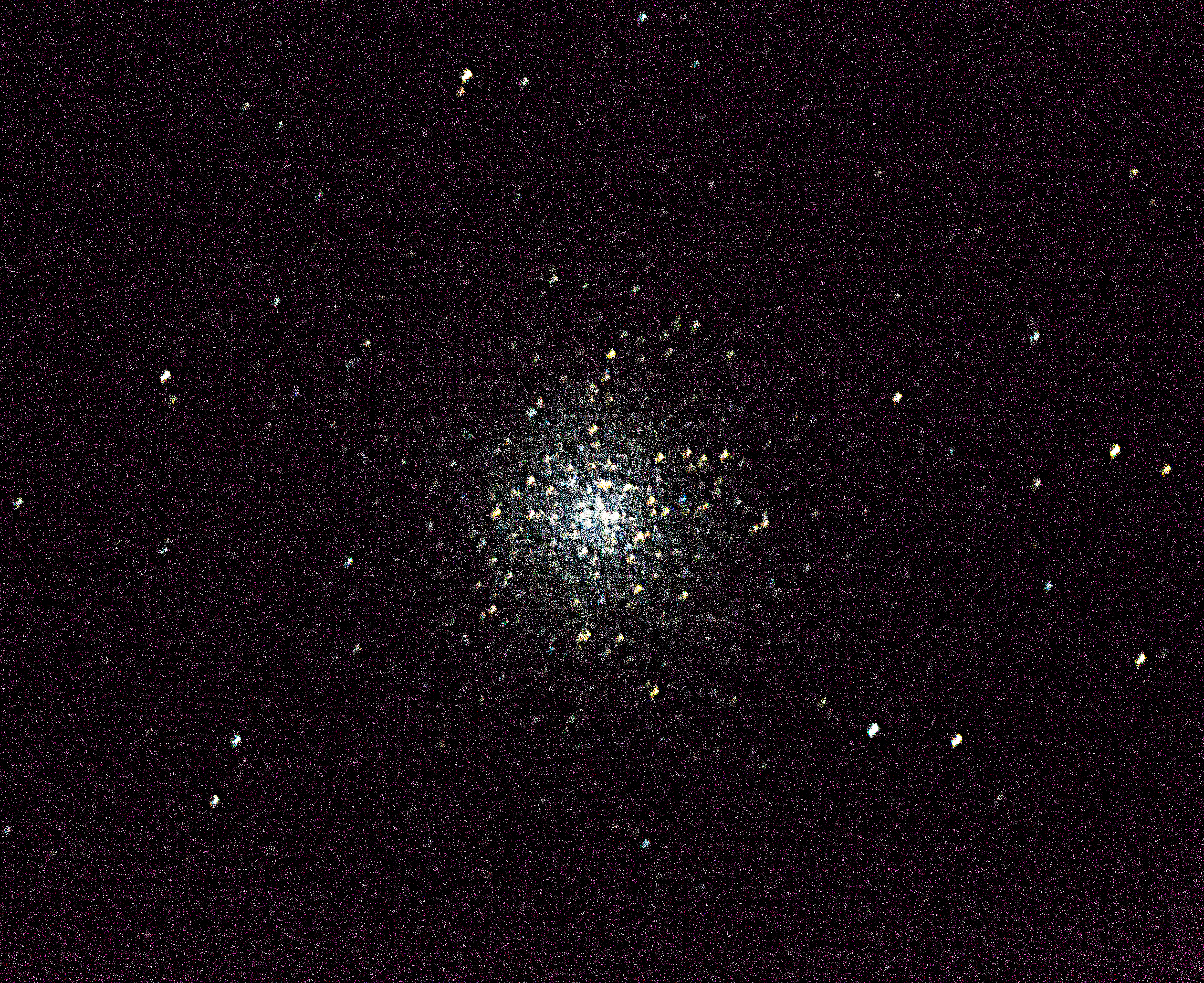 Image of M13, the Hercules Global Star Cluster, as taken through the Killarney Provincial Park Observatory - Dome 2 - Primary Instrument.